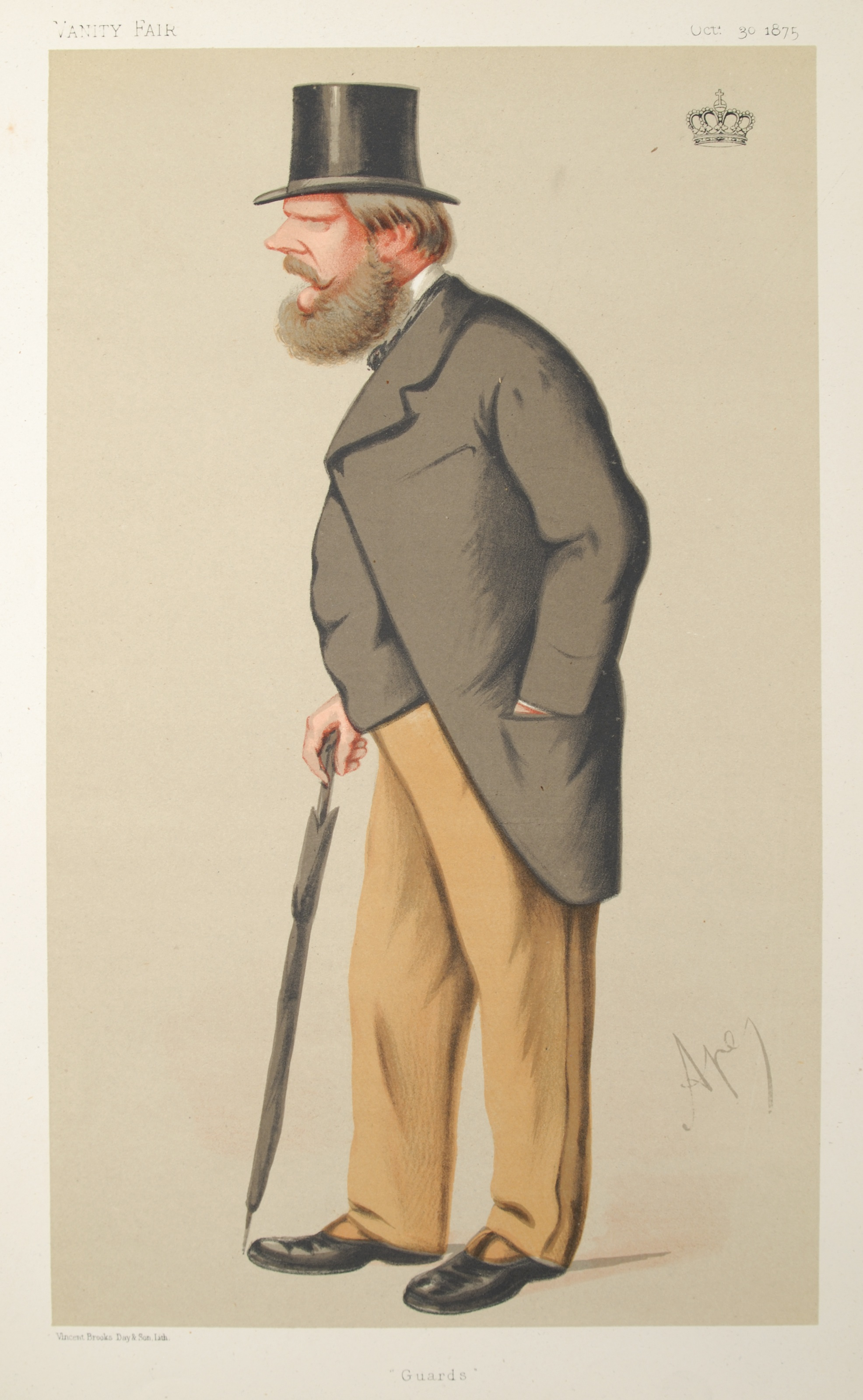 Men or Women of the Day No.114: Caricature of Prince Edward of Saxe-Weimar. Caption reads: "Guards."